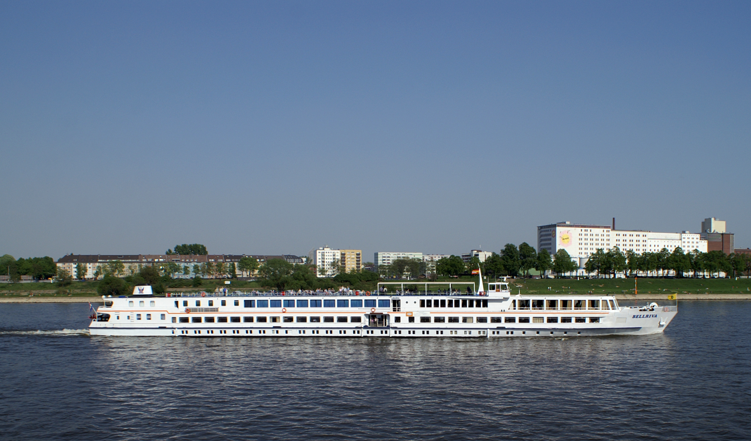 River cruise ship Bellriva in cologne.